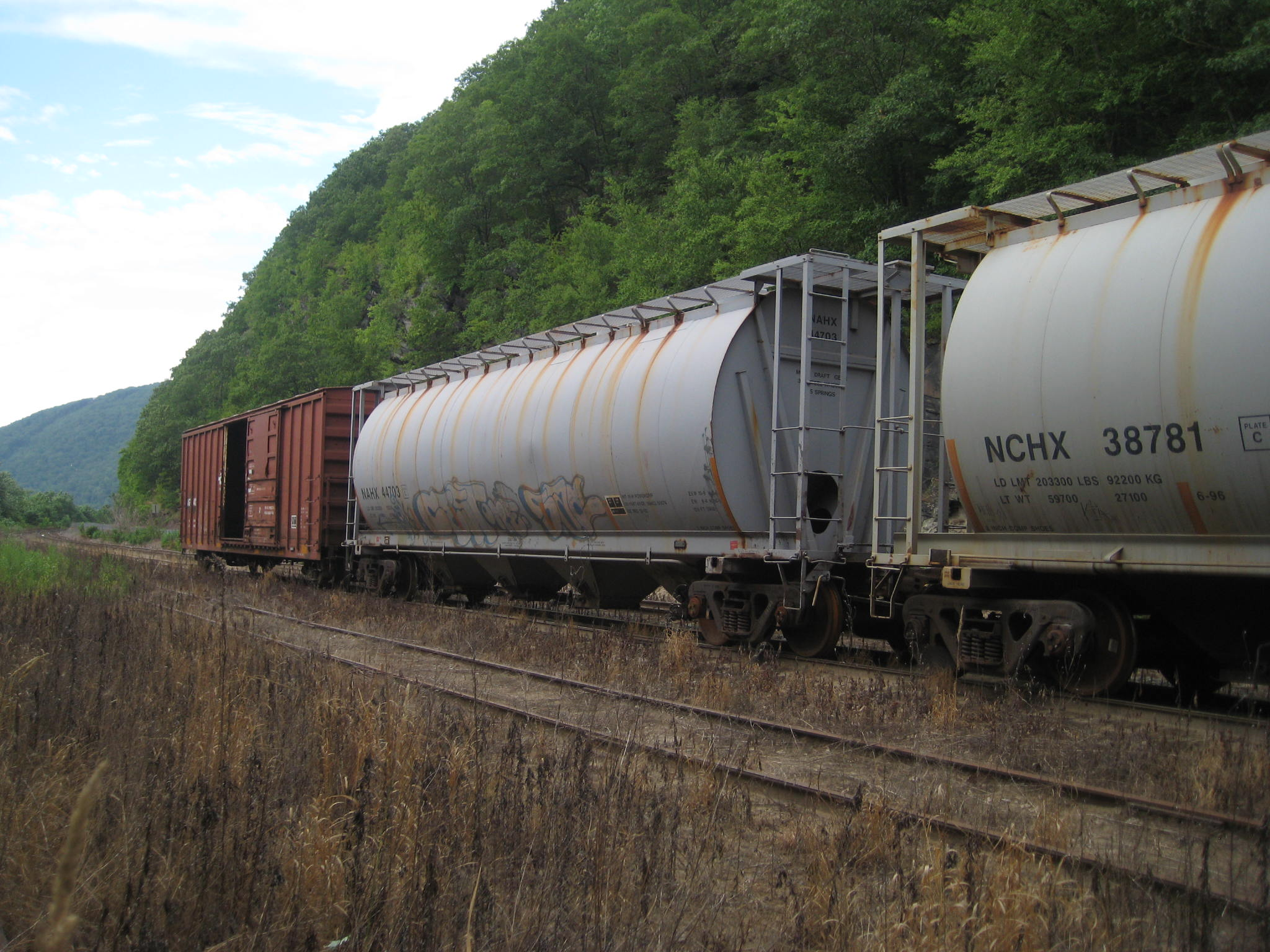 Duryea yard from bankside track under powerlines at 41°21′50″N 75°48′10″W / 41.36381°N 75.8029°W view looking apx. NNW about 200 ft from North Light Tower. (visible at right of pic)